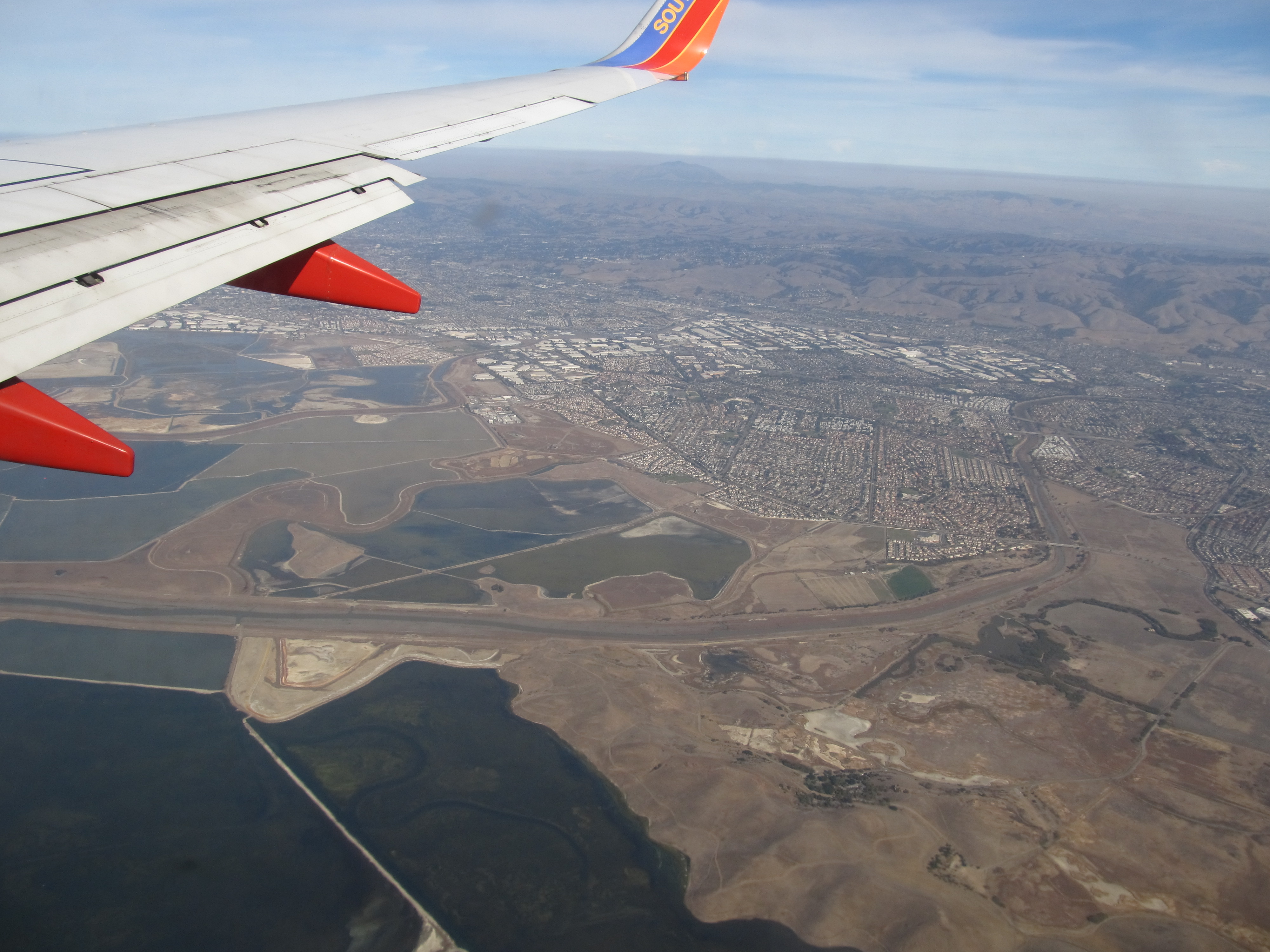 Union City is a city in Alameda County, California, United States. It was incorporated in 1959, combining the communities of Alvarado and Decoto. Alvarado was the original county seat of Alameda County, and the site of the first county courthouse is a California Historical Landmark (#503). The city celebrated its 50th Anniversary in 2009. Union City is located in the southern part of the East Bay of the San Francisco Bay Area approximately 30 miles from San Francisco and 20 miles north of San Jose. According to the United States Census Bureau, the city has a total area of 19.5 square miles (51 km2), all land with no bay frontage. The Niles Cone aquifer, managed by the Alameda County Water District, supplies much of the water consumed by Union City. It is bordered by Hayward to the north and Fremont to the south. The three cities of Union City, Fremont, and Newark make up the "Tri-City" area.